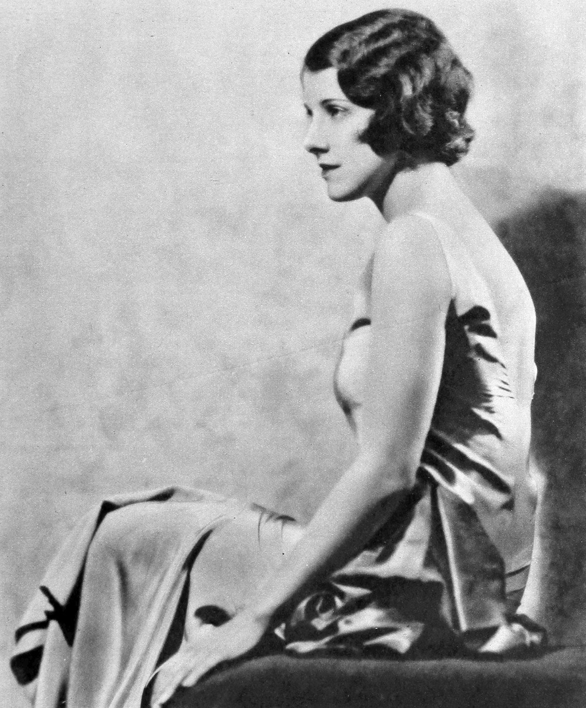 Photo of actress Louise Huntington.